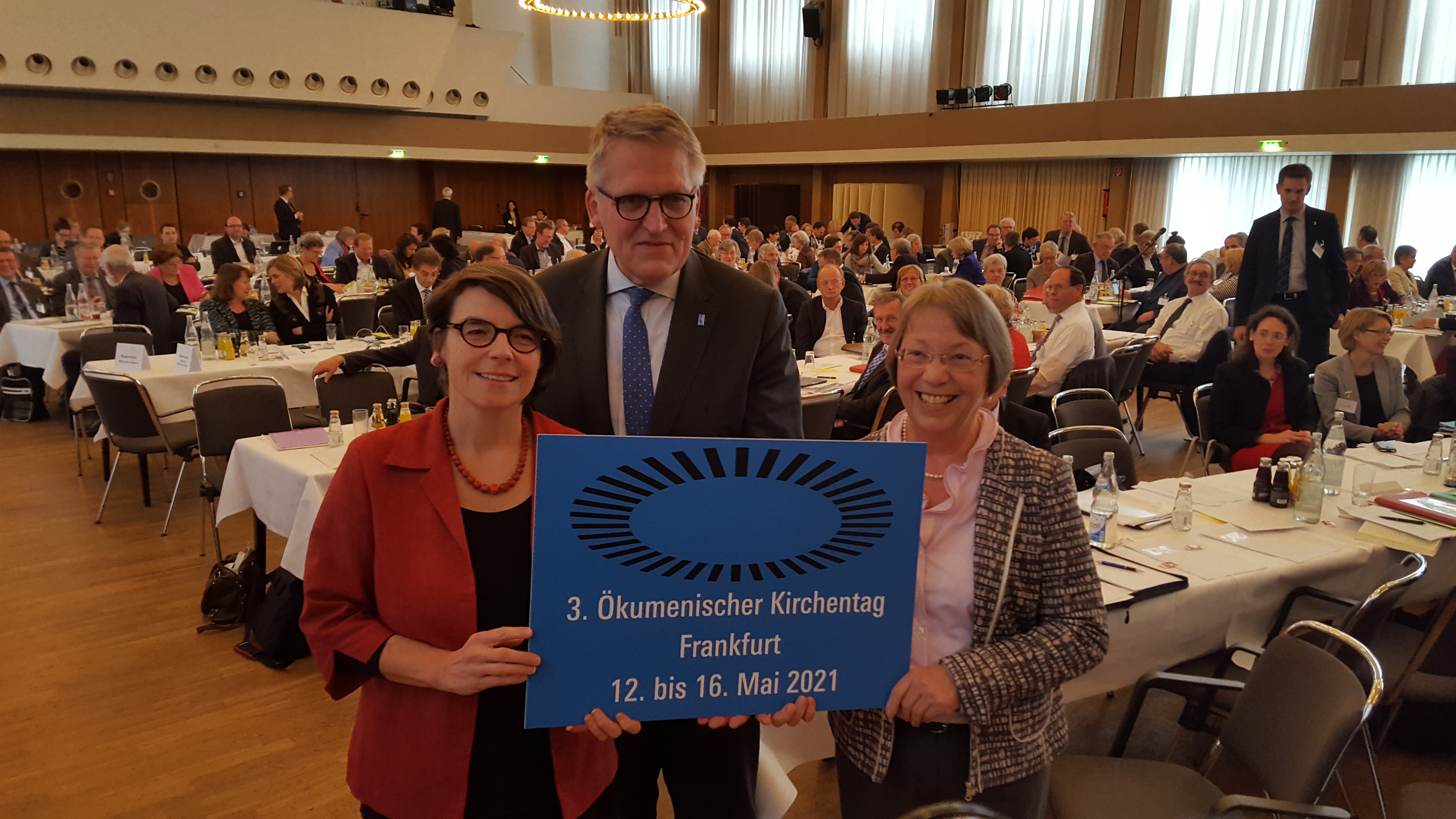 Einladung zum 3. Ökumenischen Kirchentag in Frankfurt: Die Präsidentin der Diözesanversammlung des Bistums Limburg, Ingeborg Schilai (rechts), die Präsidentin des Deutschen Evangelischen Kirchentags, Christina Aus der Au und ZdK-Präsident Thomas Sternberg